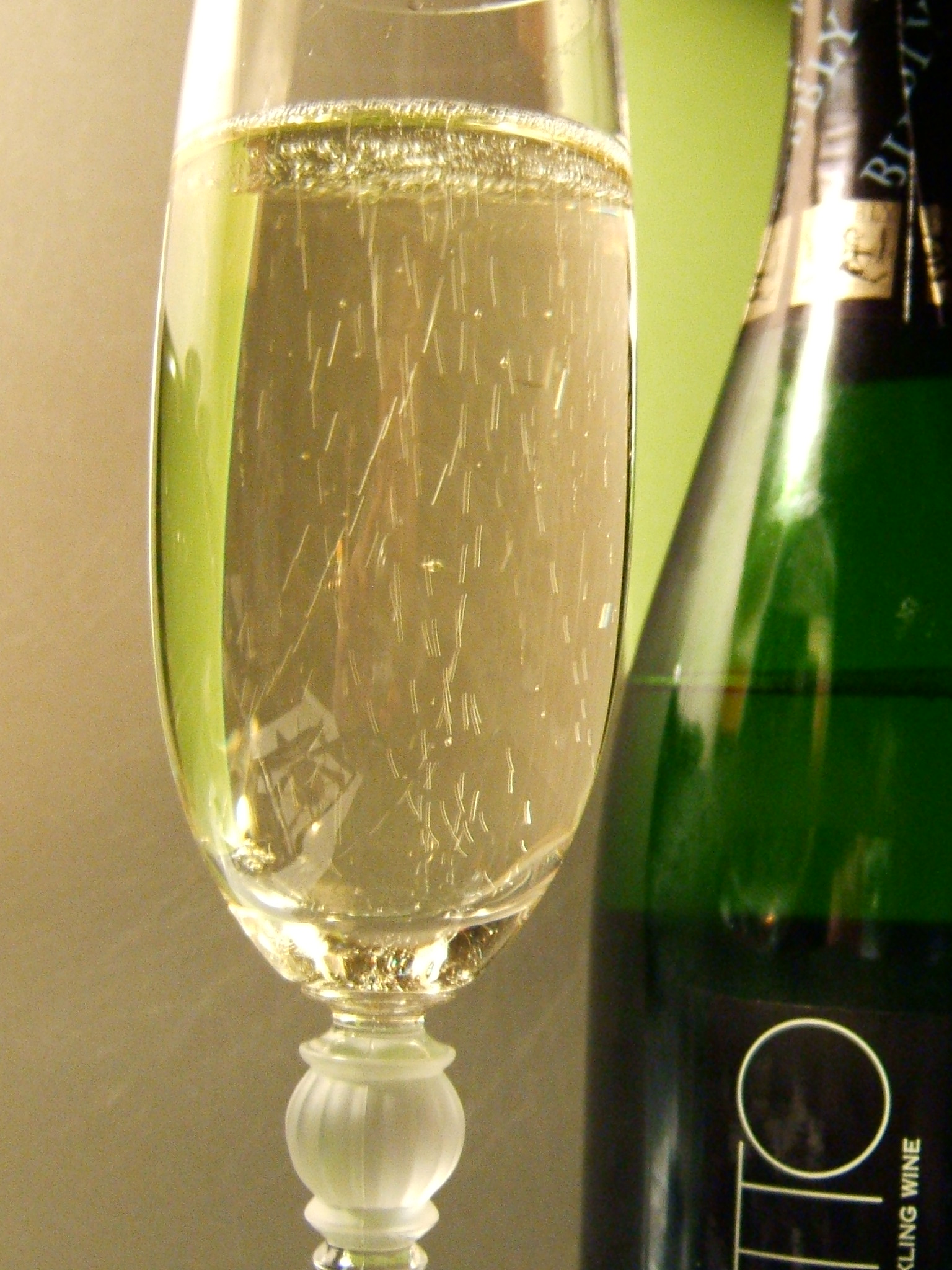 The Italian sparkling wine Prosecco from the Veneto region of northeast Italy.